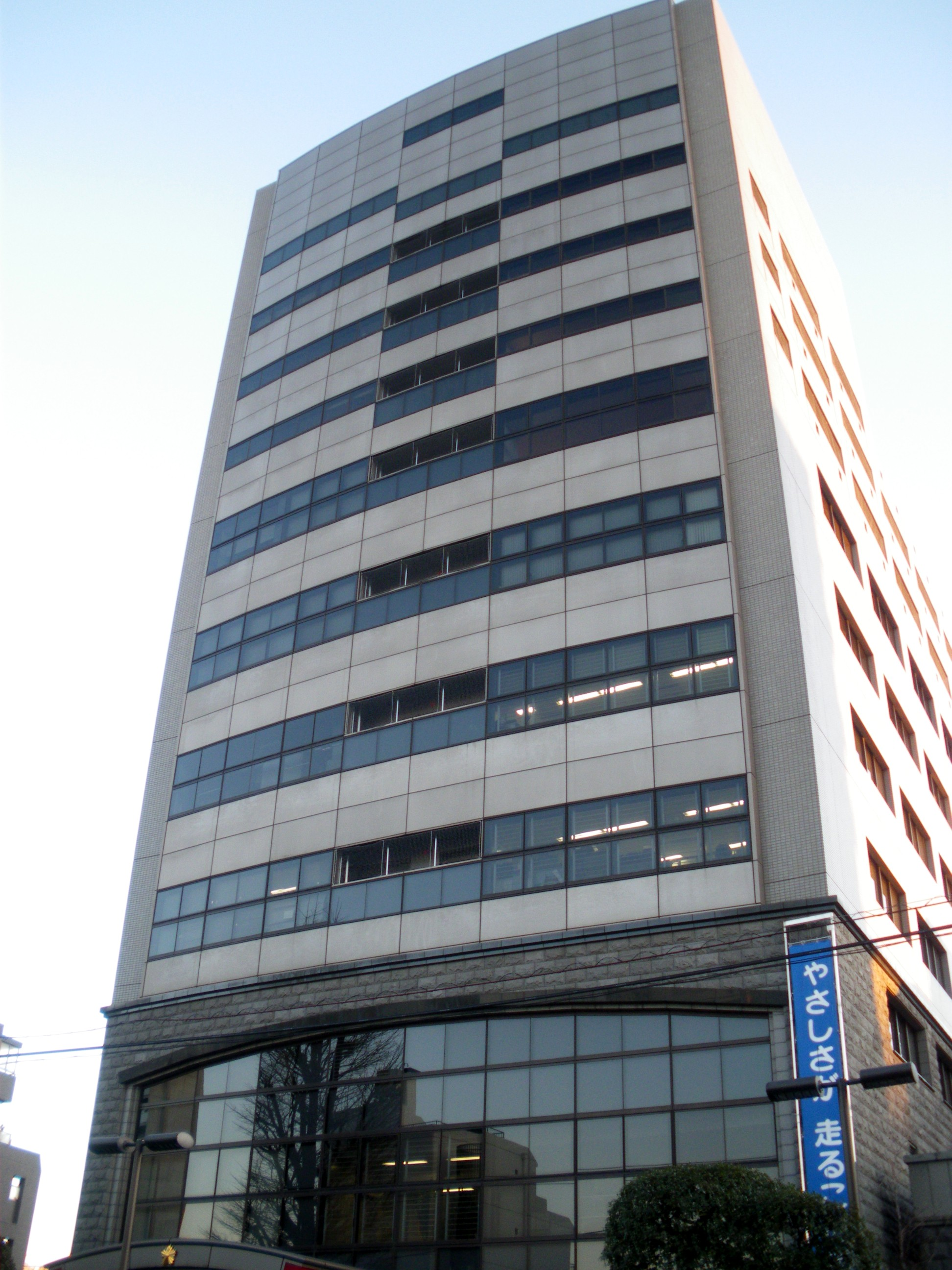 A photo of Ushigome Police Station,Minamiyamabushicho,Shinjuku-ku,Tokyo,Japan.